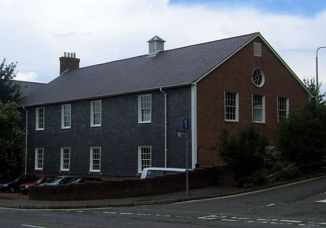 Jireh Chapel, Cliffe, Lewes, East Sussex. first chapel of William Huntington